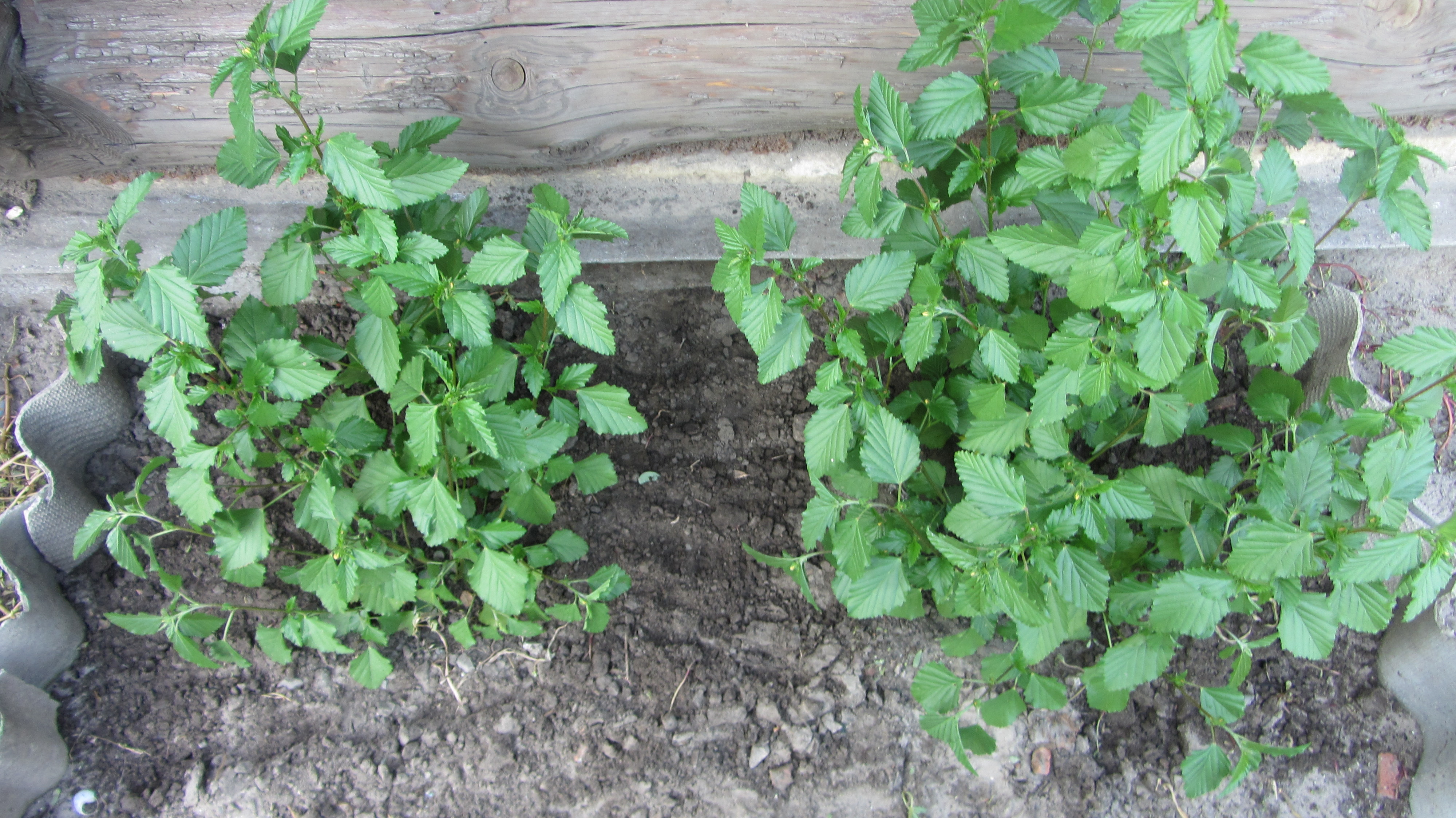 Turnera diffusa Plant